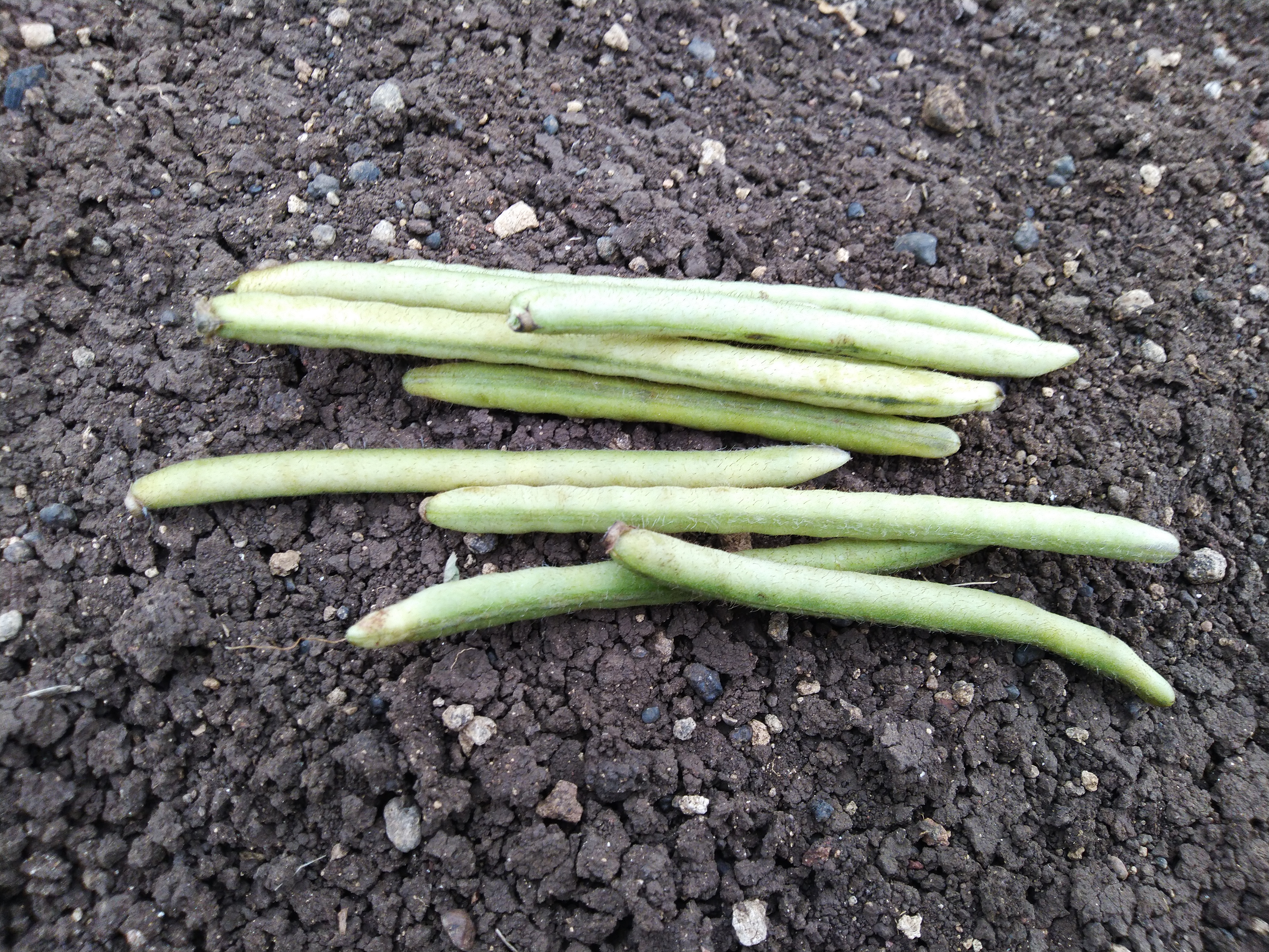 Mung